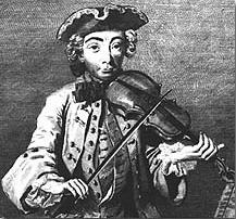 Michel Corrette (1707-1795), composer